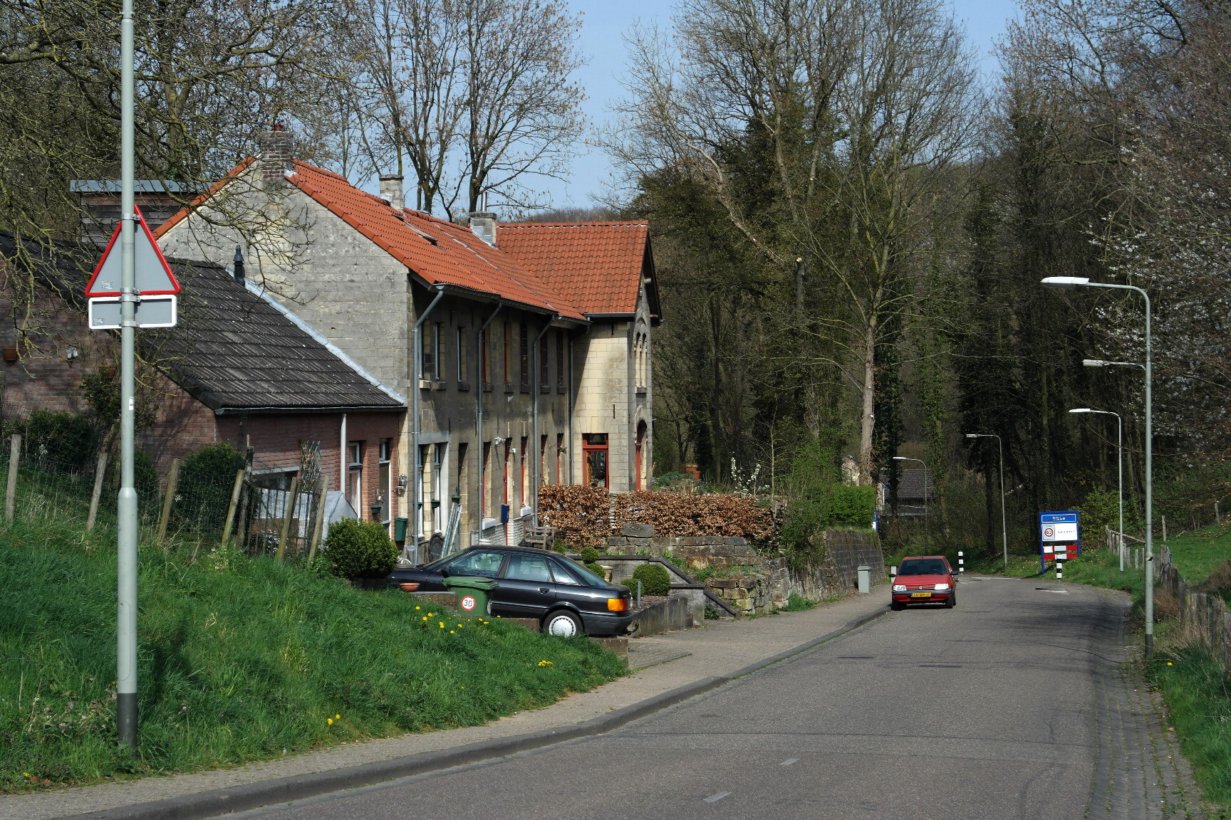 Sibbe, Limburg, the Netherlands. View of local limestone houses at the lower end of Bergstraat, part of the hill called Sibbergrubbe, leading to Valkenburg. Beyond the village boundaries starts Biebosch forest.